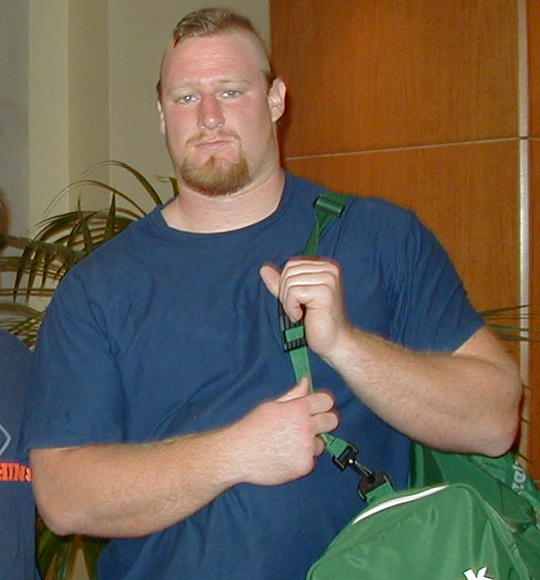 If used somewhere other than Wikipedia, Nelson, by name.